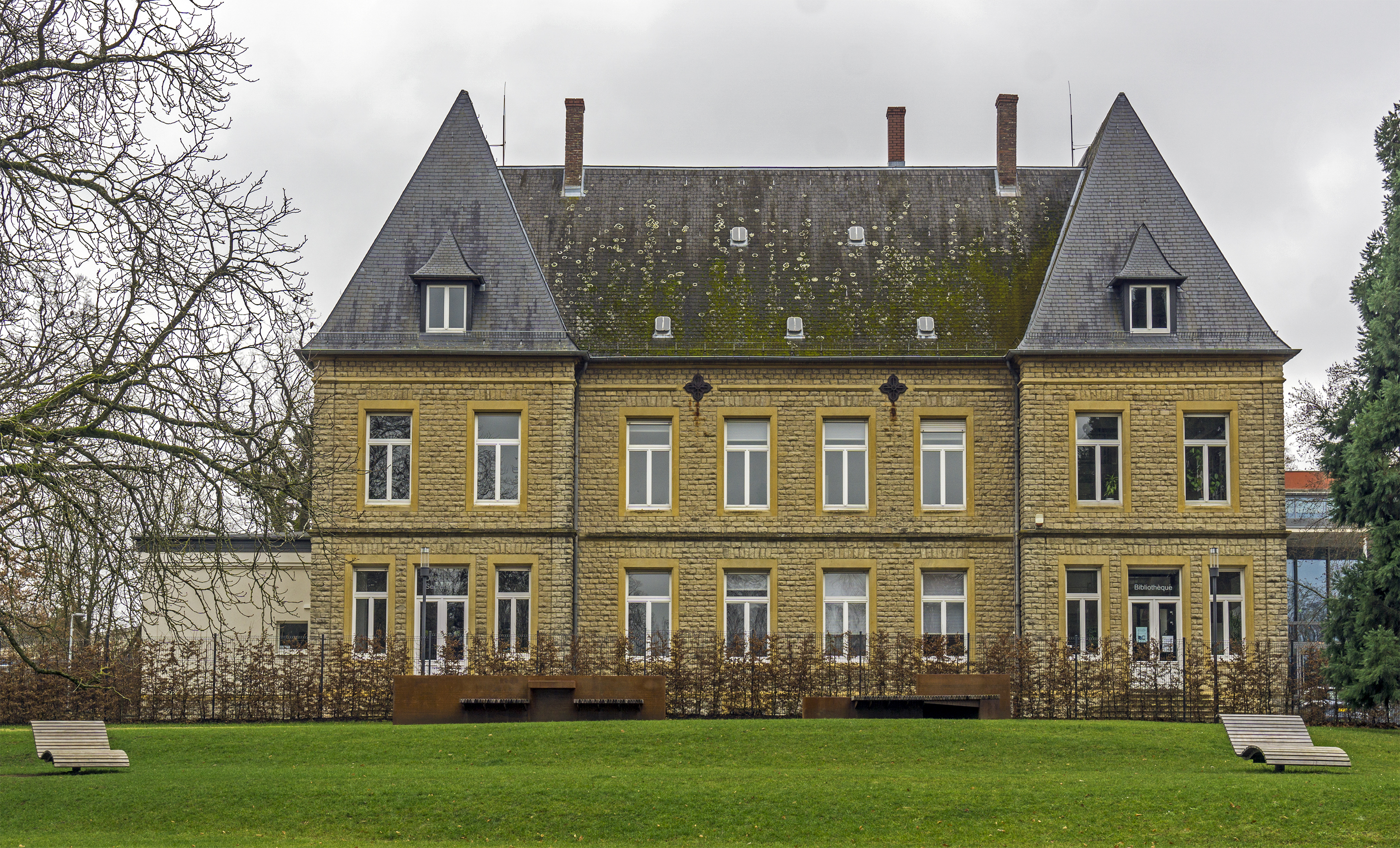 Main building of the Lycée Nic-Biever in Dudelange at 28, rue du Parc with the school library and the administration.